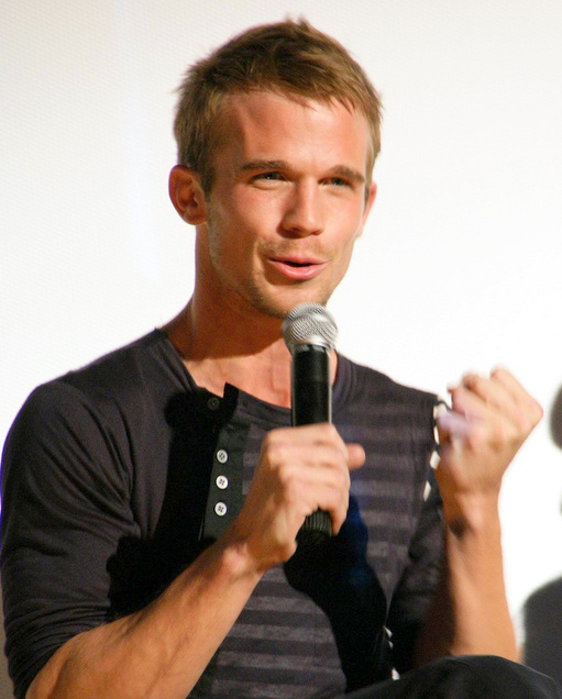 Actor Cam Gigandet From (The Twilight Saga) in October 2008.